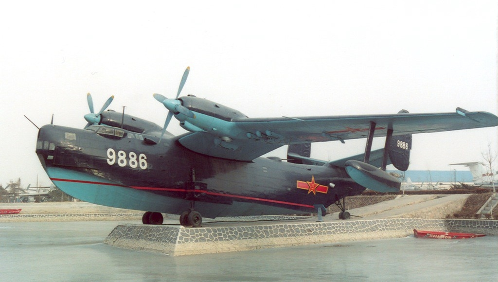 Beriev Be-6, China Aviation Museum